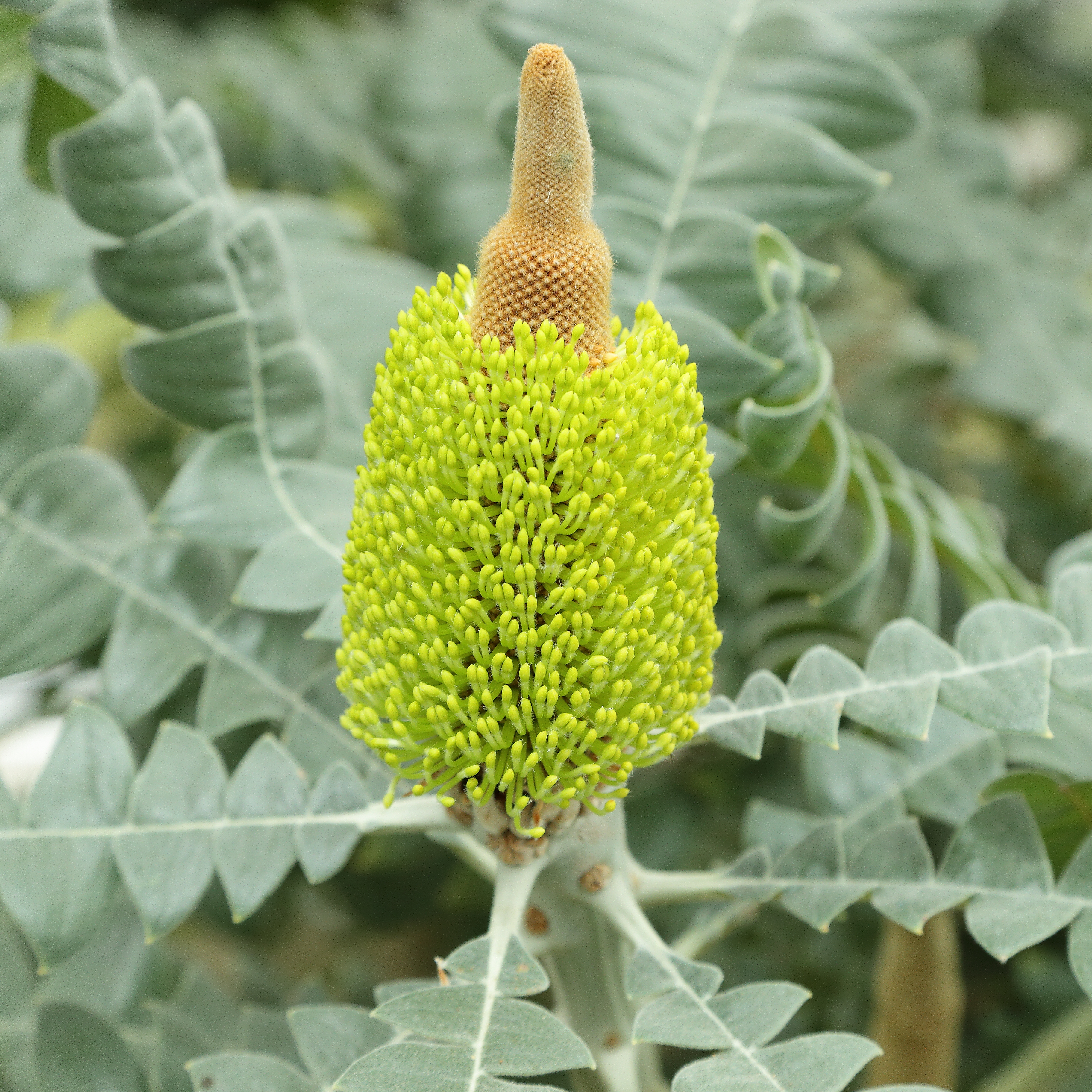 Banksia grandis i Bergianska trädgården.